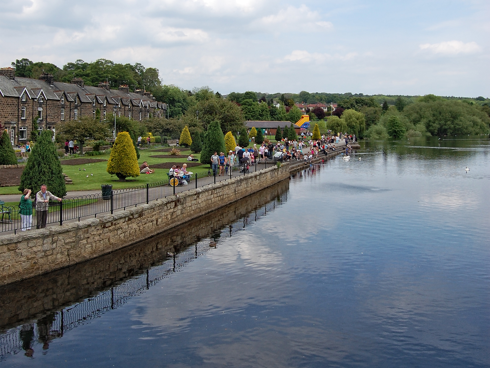 People congregate to watch the world go by on the banks of the Wharfe on a bank holiday Monday in 2009. The original shot can be found online in this flickr set.